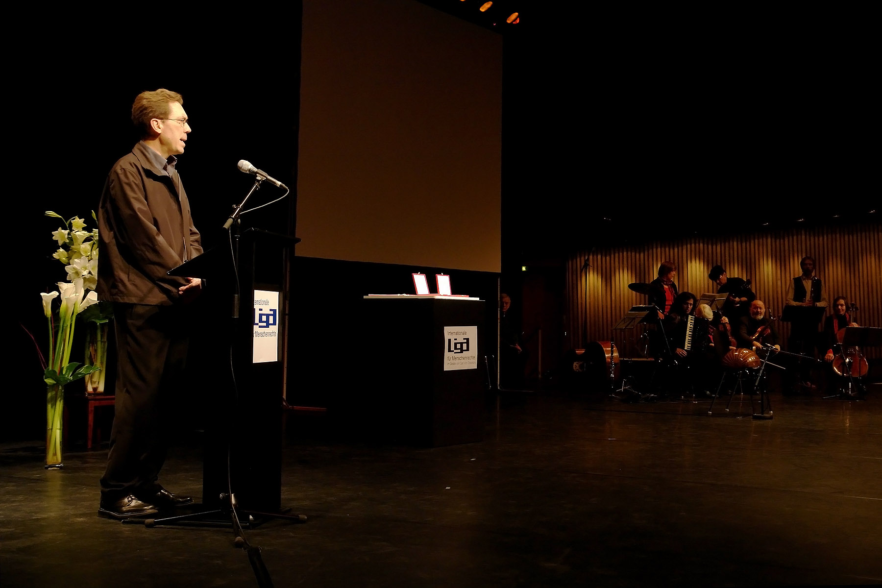 KlezMischpoche at the ceremony for the conferment of the Carl von Ossietzky Medall 2008.